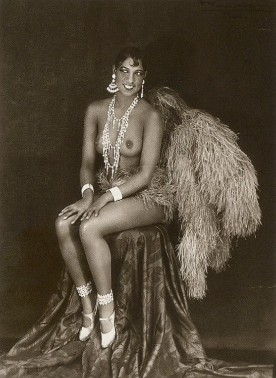 Josephine Baker